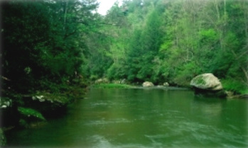 Wild and Scenic Red River in Kentucky's Clifty Wilderness, within the Red River Gorge.